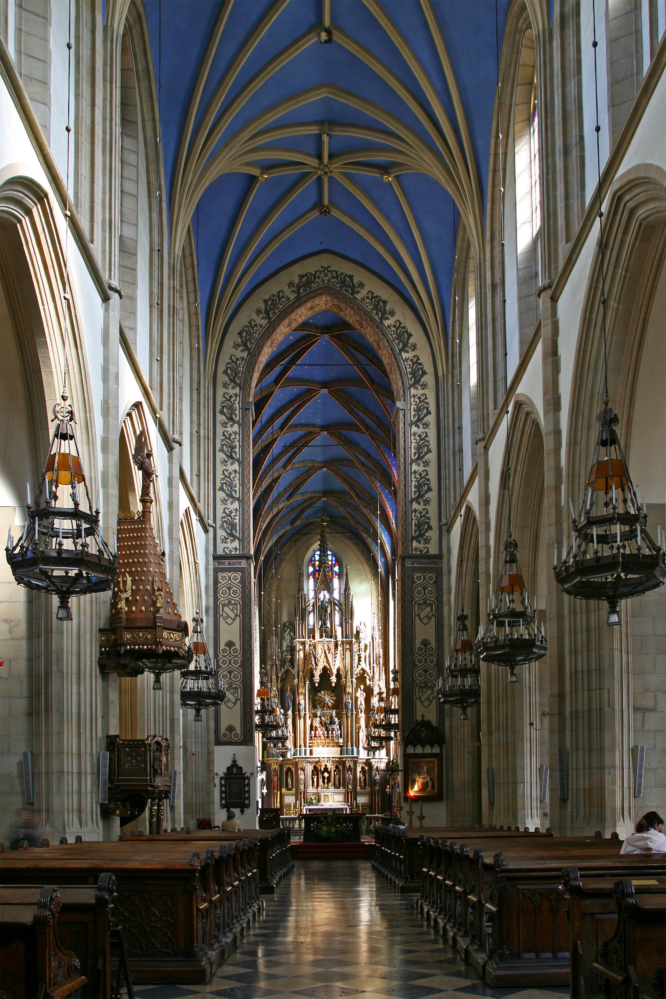 The Dominican Basilica of the Holy Trinity in Kraków (Poland).